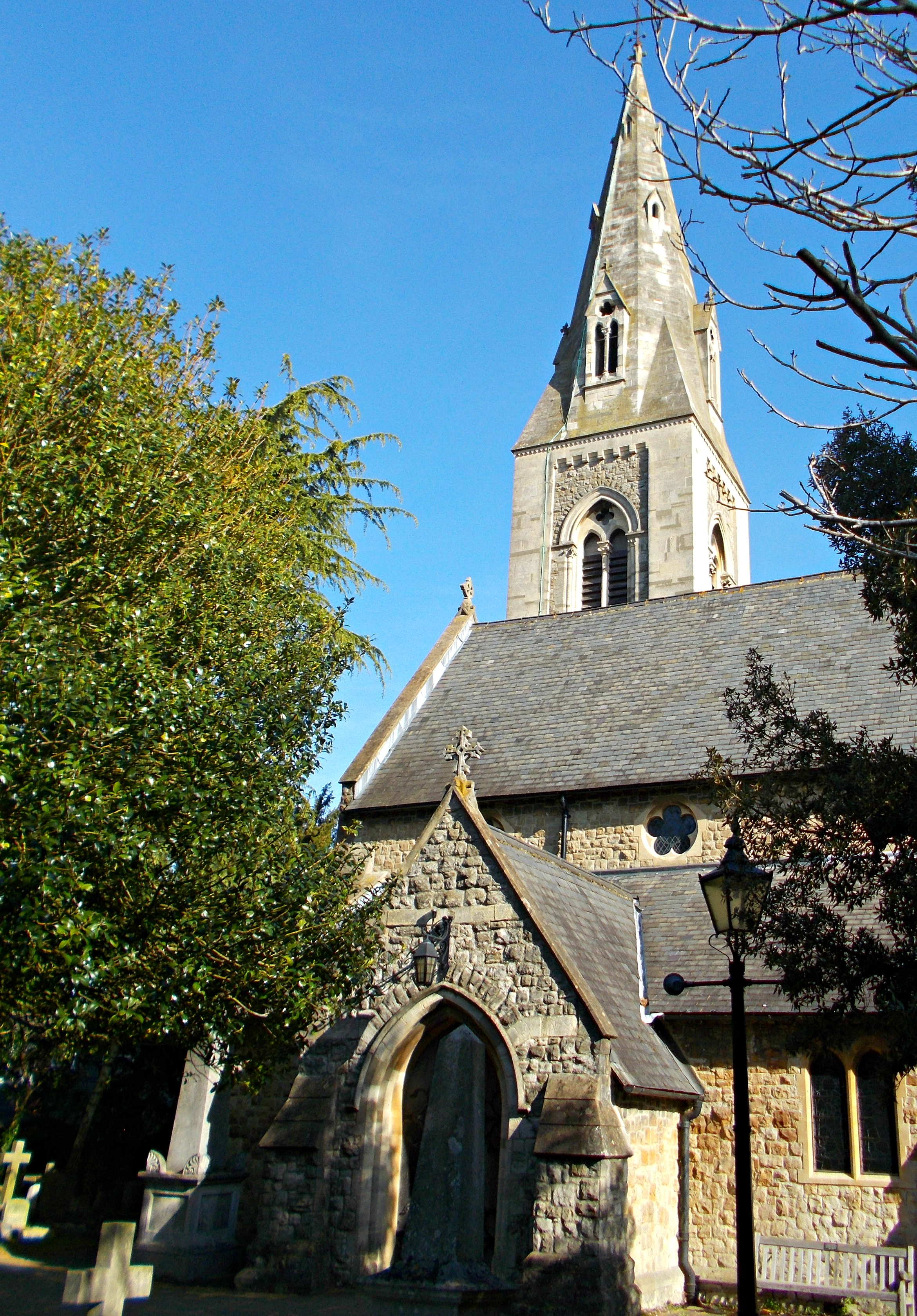 Cheam Village is a pleasant, leafy area of London about 12 miles from the centre of the city.